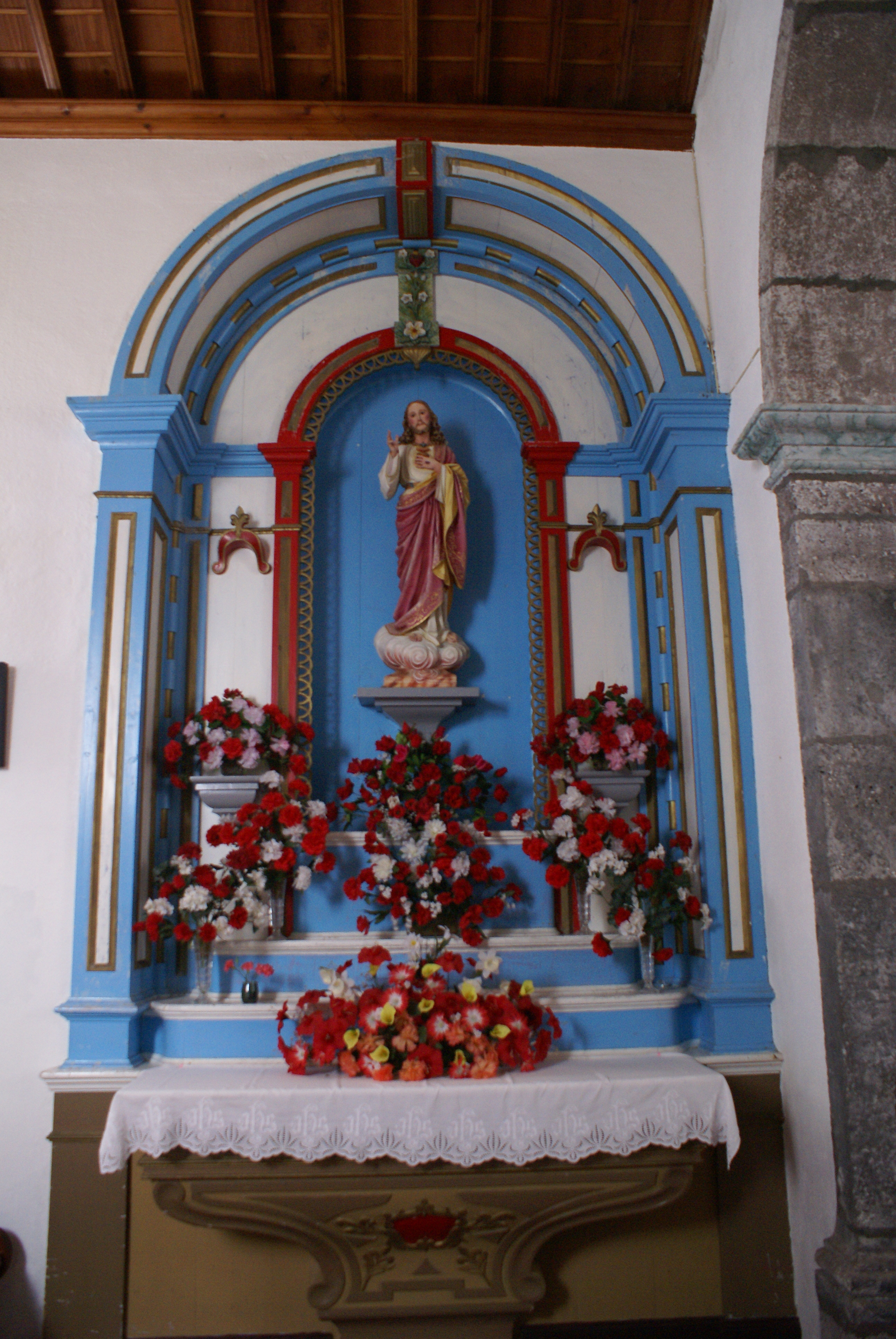 Lateral alter in the Church of Santo Cristo, Fajã da Caldeira de Santo Cristo, Ribeira Seca, Calheta, São Jorge (Azores), Portugal